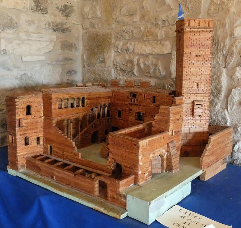 scale model of castell de Ciutadilla, Catalunya